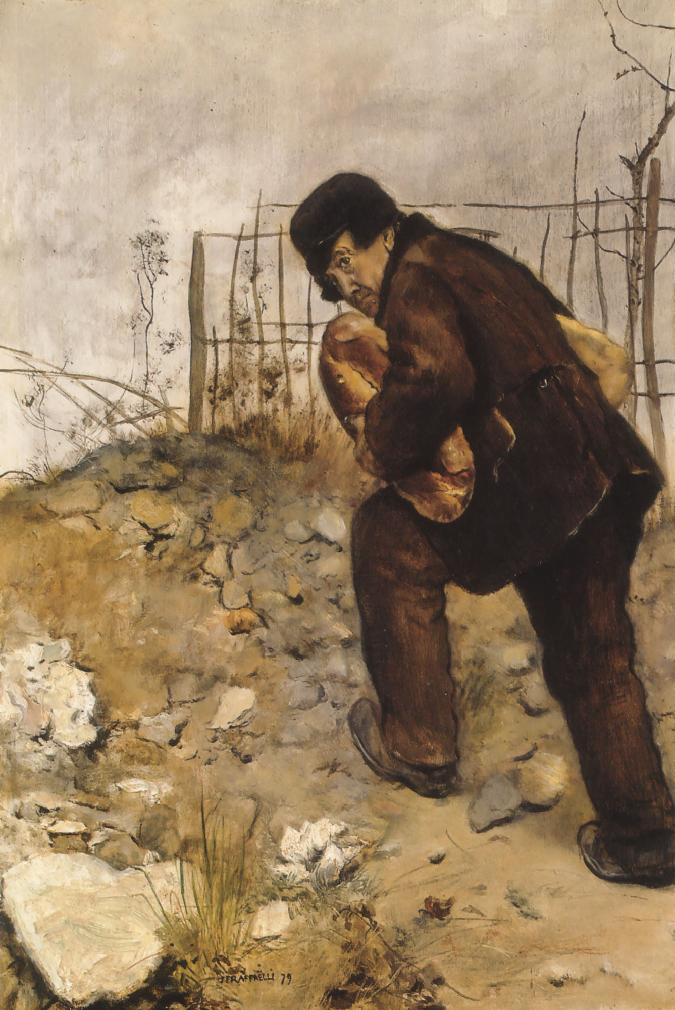 Man with two loaves of bread